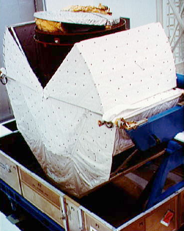 ANIK C-3, a communications satellite, sits in its mission "can" in the Vertical Processing Facility at the Kennedy Space Center as technicians prepare it for STS-5